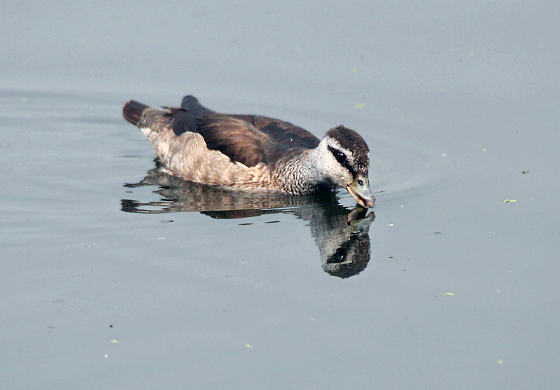 Cotton Pgymy Goose (Nettapus coromandelianus) in Kolkata, West Bengal, India.